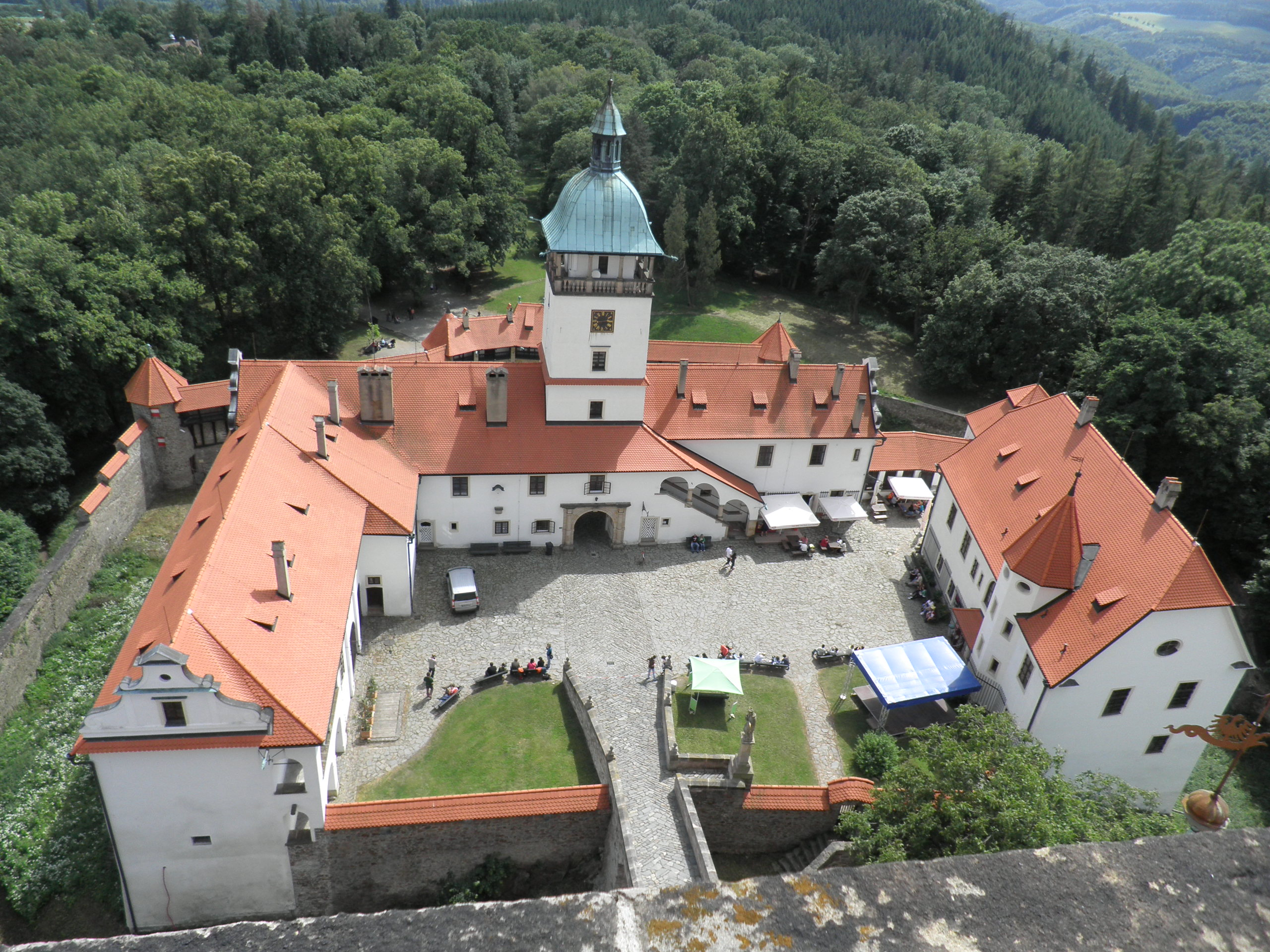 View from the Tower Česky: Pohled z věže na nádvoří